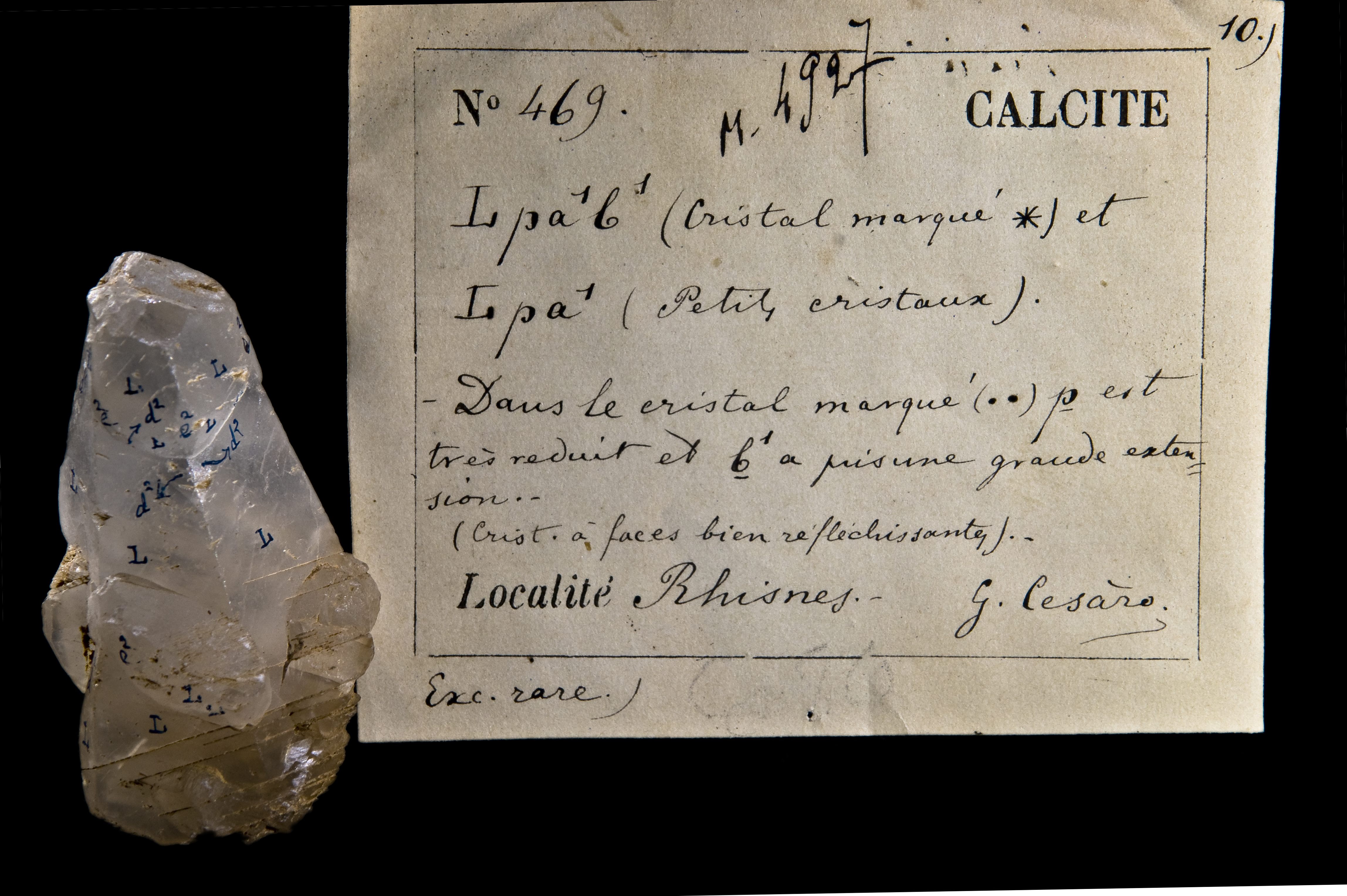 Calcite with autograph annotations of de Cesaro - Rhisnes, province de Namur, Belgique.